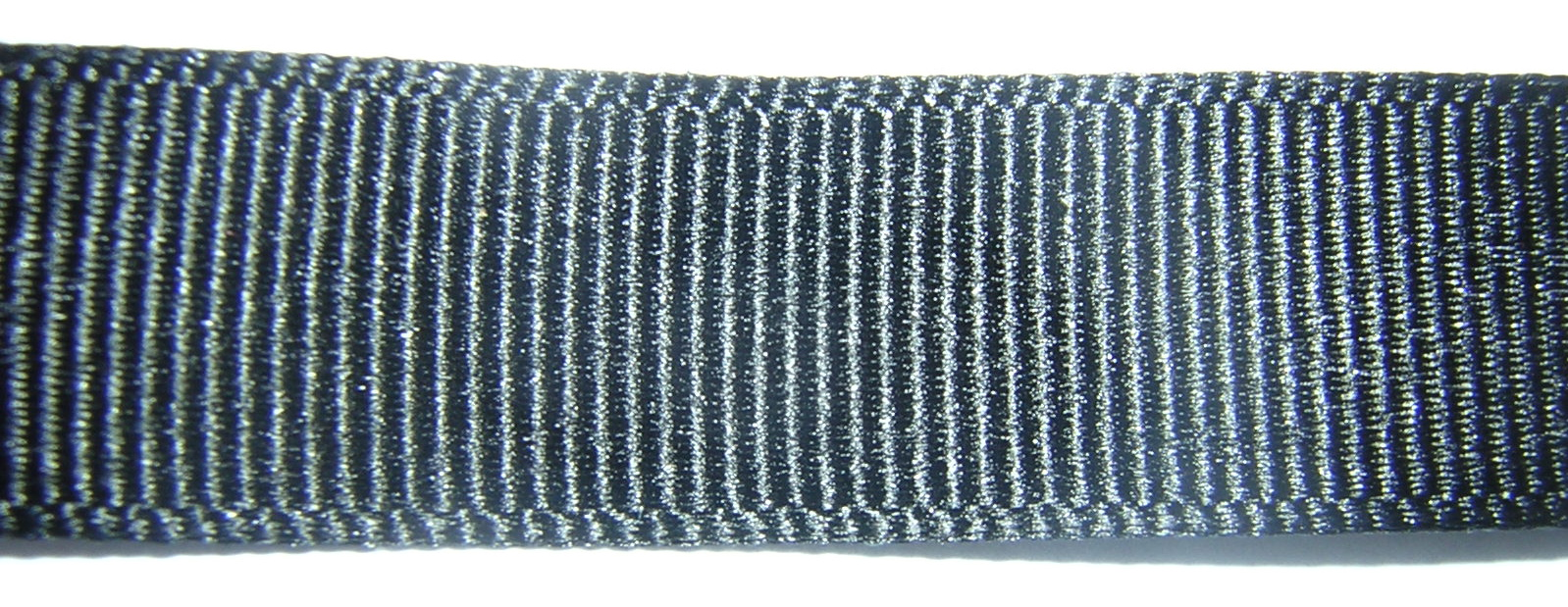 a close up picture of a grosgrain ribbon